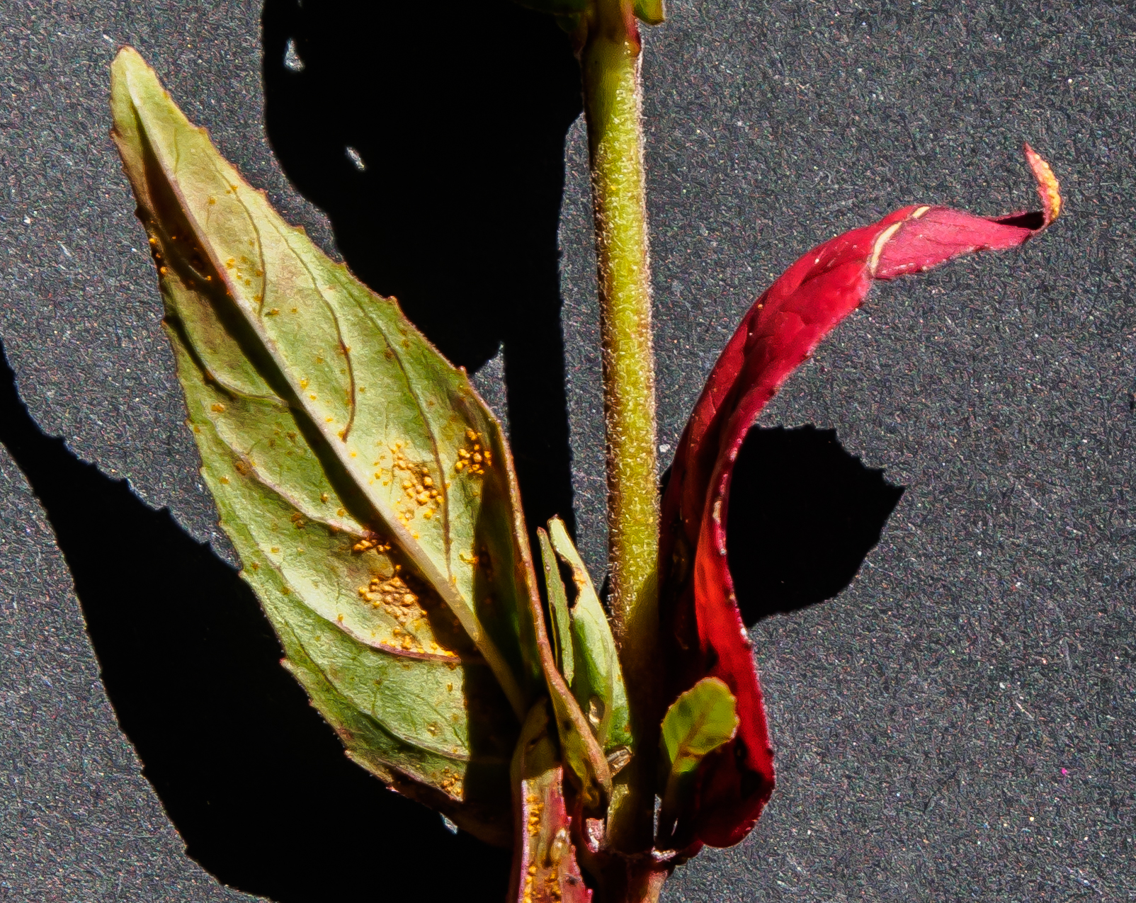 Pucciniastrum epilobii - urediniospores on Epilobium ciliatum, Austria, Styria, Ramsau am Dachstein